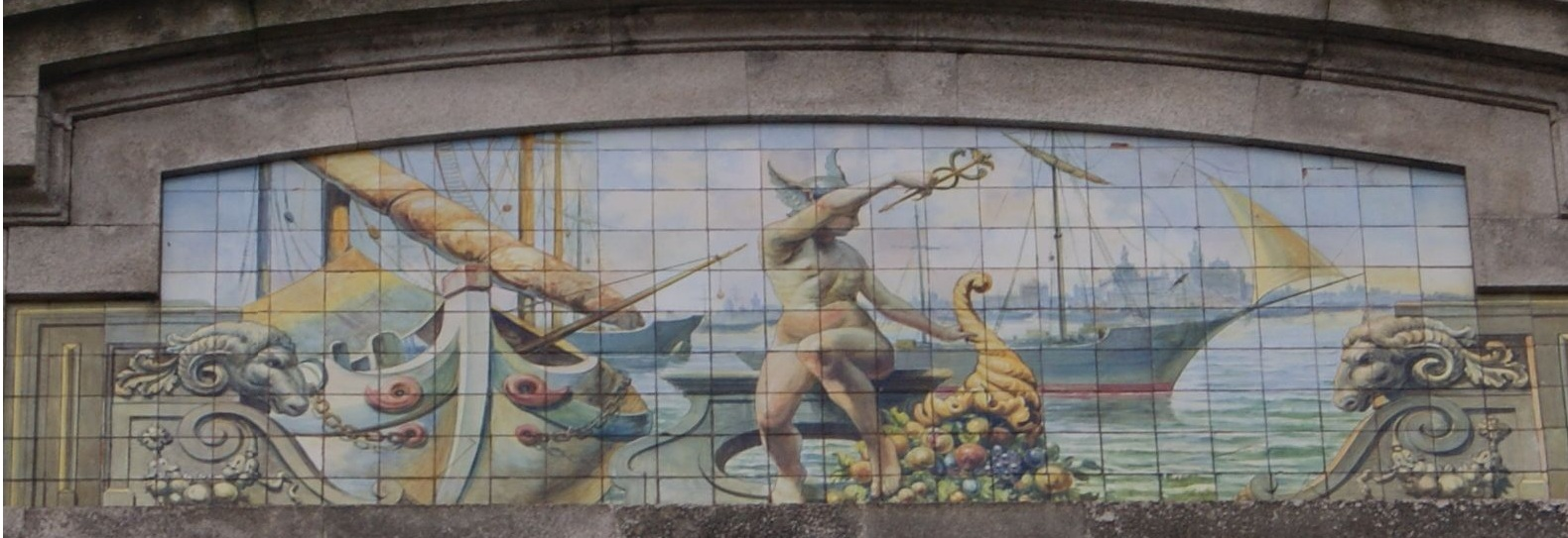 Mural representation (glazed tiles) of Mercury in an early XX century modernist building in Vigo (Galicia, Spain)